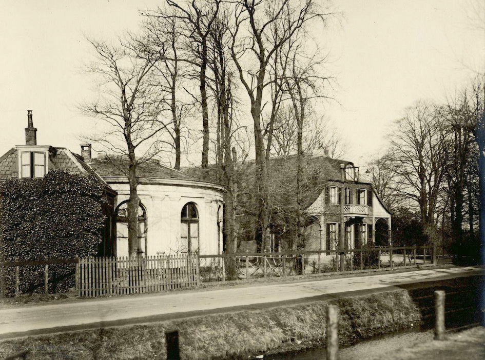 Jaffa near Utrecht